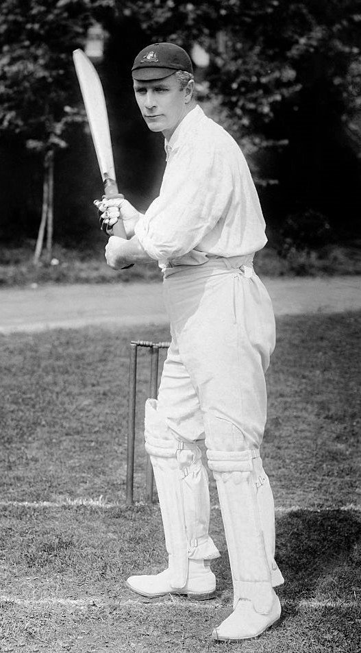 Peter McAlister of Austraia during the Ashes tour to England in 1909.